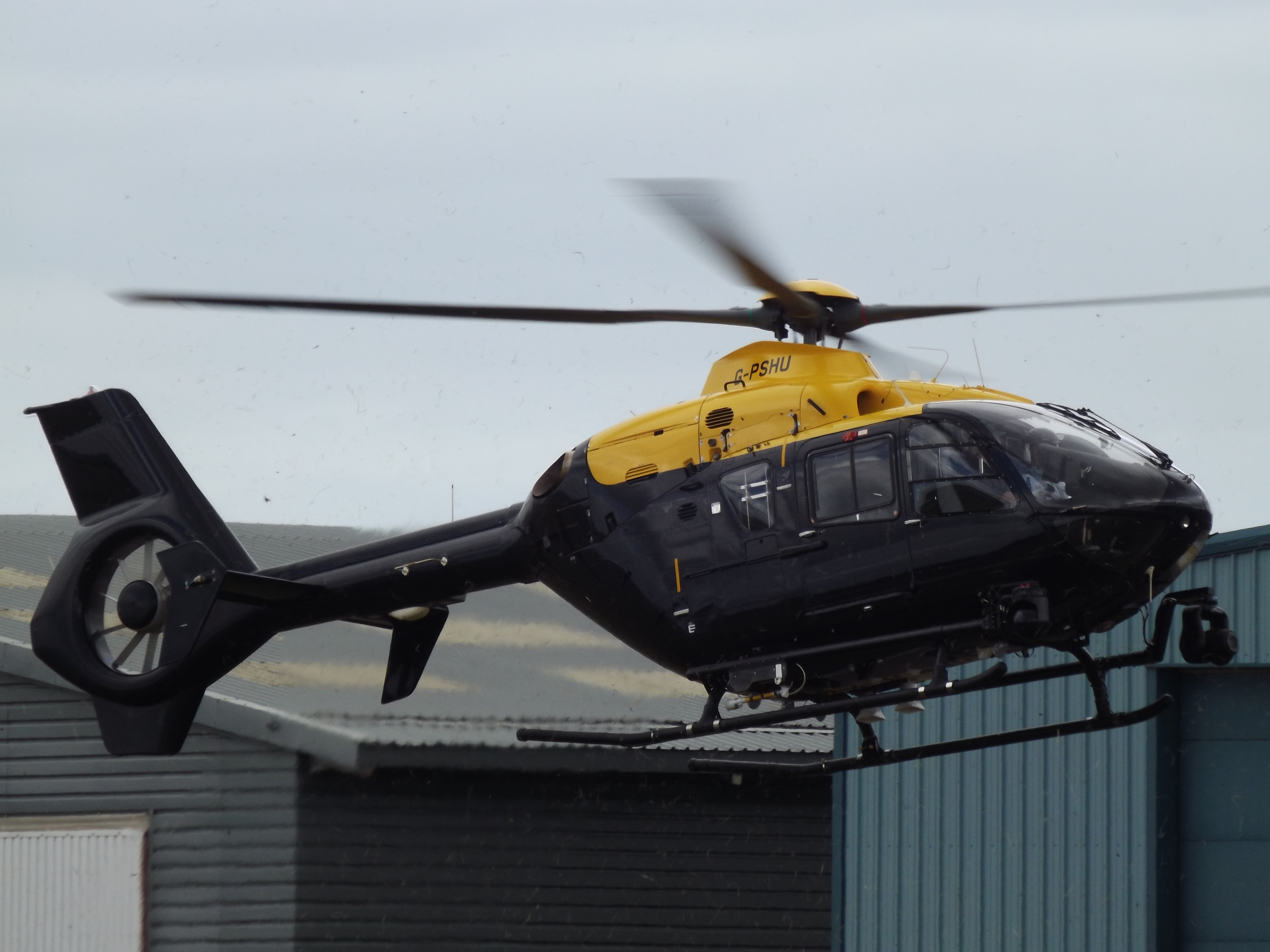 At Gloucestershire Airport.